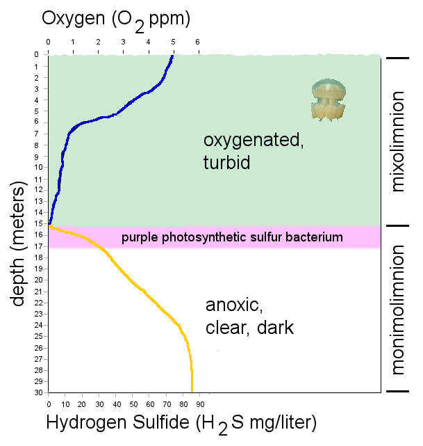 Diagram of the stratification of Jellyfish Lake on Eil Malk, Palau The source of the data for the diagram was: The physical, chemical, and biological characteristics of a stratified, saline, sulfide lake in Palau, W. M. Hamner, Limnol. Oceanogr., 27(5), 1982, 896-909, page 899 The source data was collected on 30, April 1979